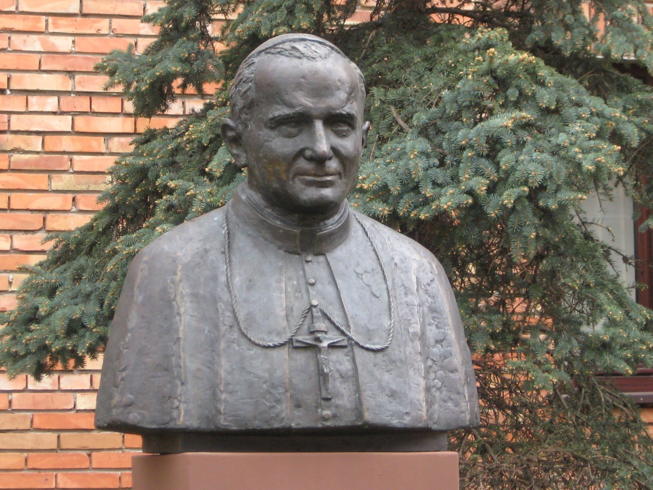 Pope john Paul II - church Matki Bożej Królowej Aniołów in Warsaw distr. Bemowo